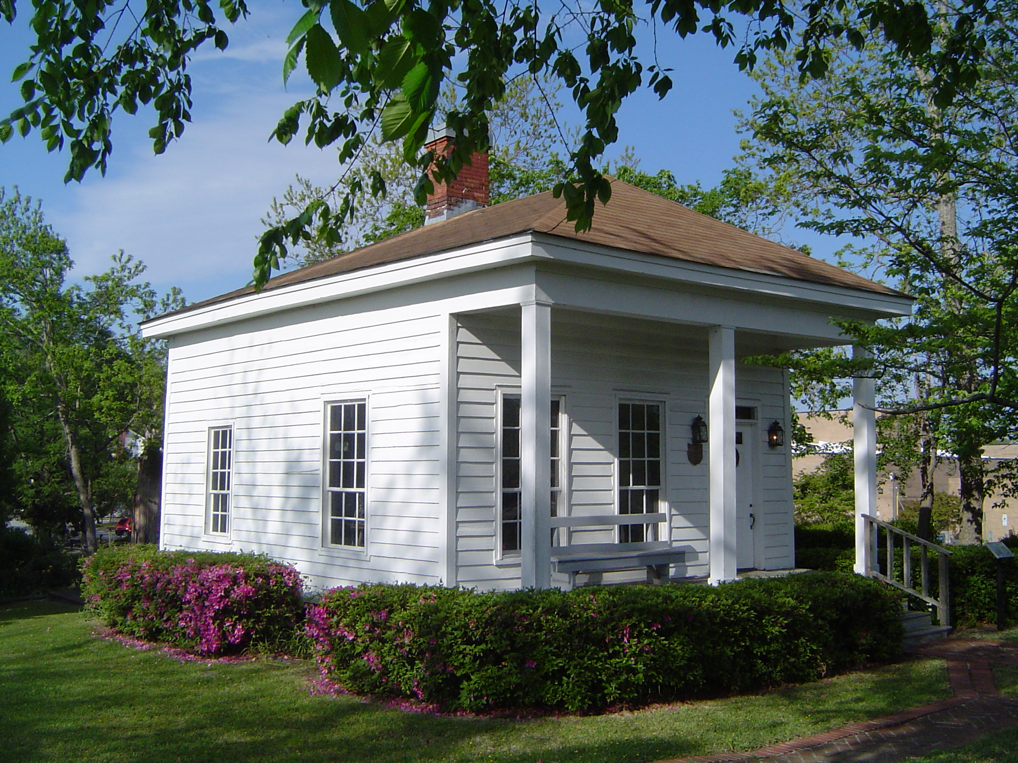 The Pelletier House, the oldest standing structure in Jacksonville, North Carolina.